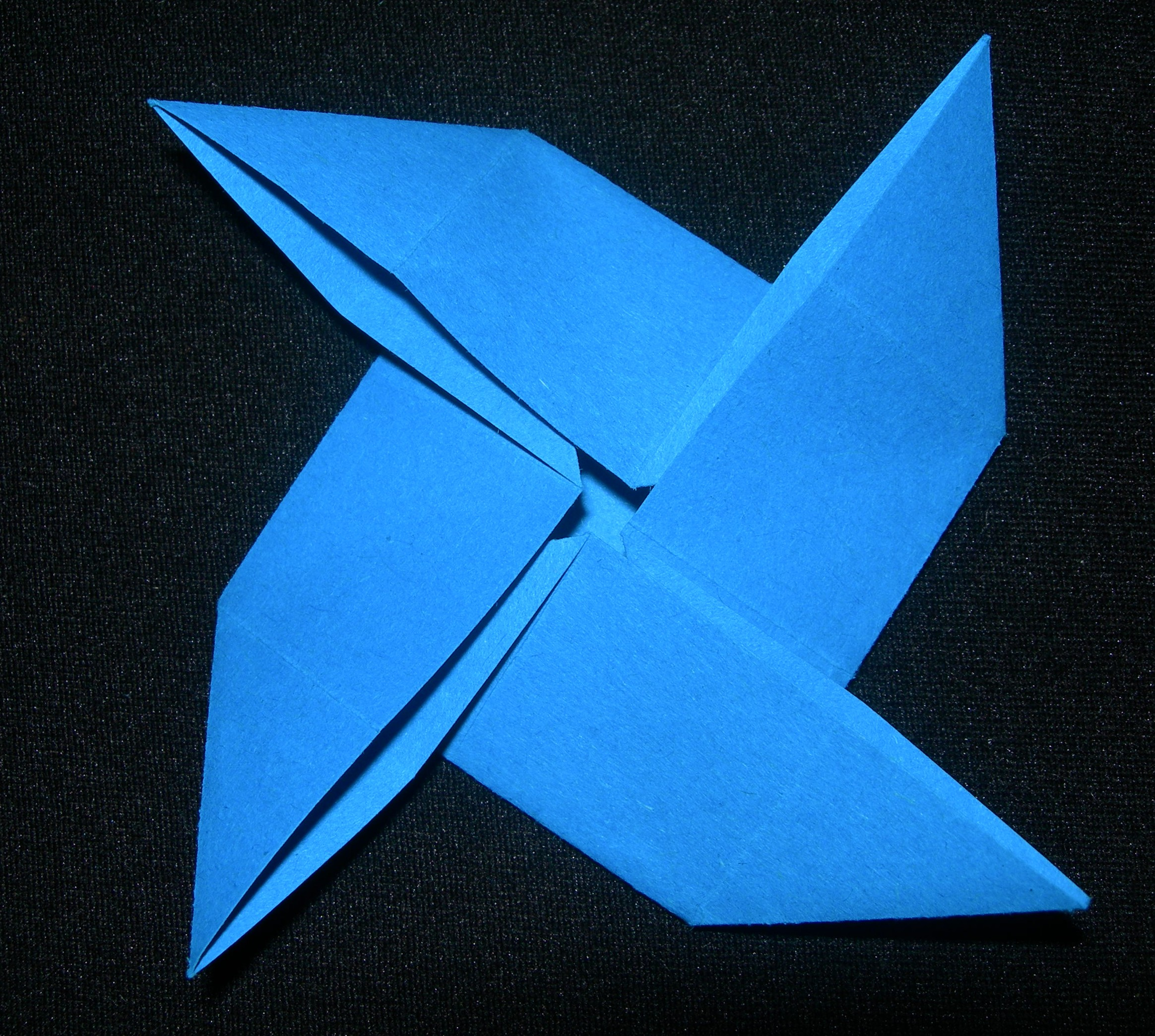 Mill origami